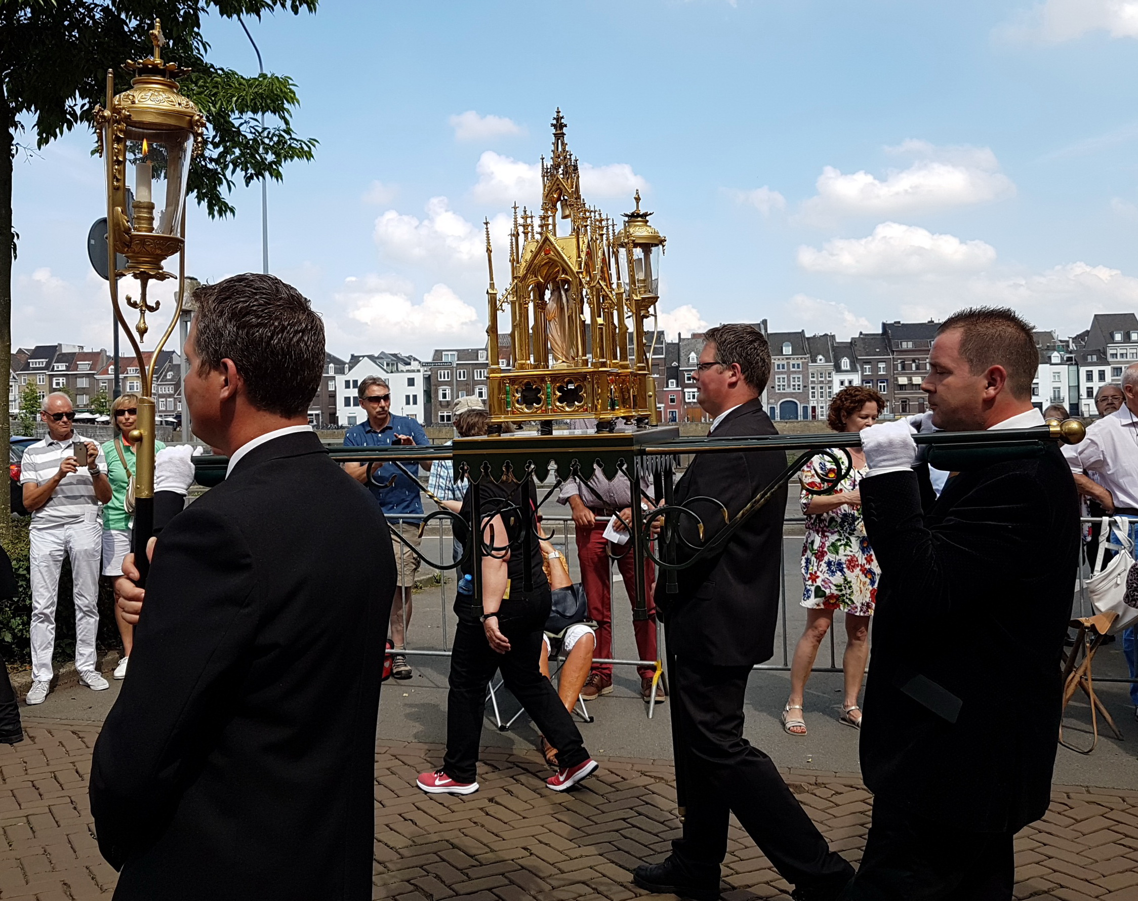 Participants in a historic religious procession during the 2018 Heiligdomsvaart (Relics Pilgrimage) in Maastricht, Netherlands. The history of this seven-yearly catholic pilgrimage goes back to the Middle Ages. The first 'modern' version took place in 1874. On both Sundays of the 10-day festival, a procession is held in which the main relics and other devotional objects are exhibited. This photo was taken at Het Bat during the (second) procession on Sunday 3 June 2018. This particular group represents the Roman Catholic Basilica of Saint Liduina and Our Lady of the Rosary in Schiedam, where Saint Liduina is venerated. Her reliquary is carried on a processional litter.